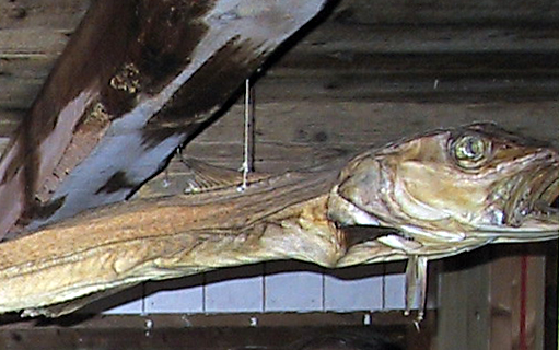 A Norwegian "king cod" commonly used for weather forecast in the old days.